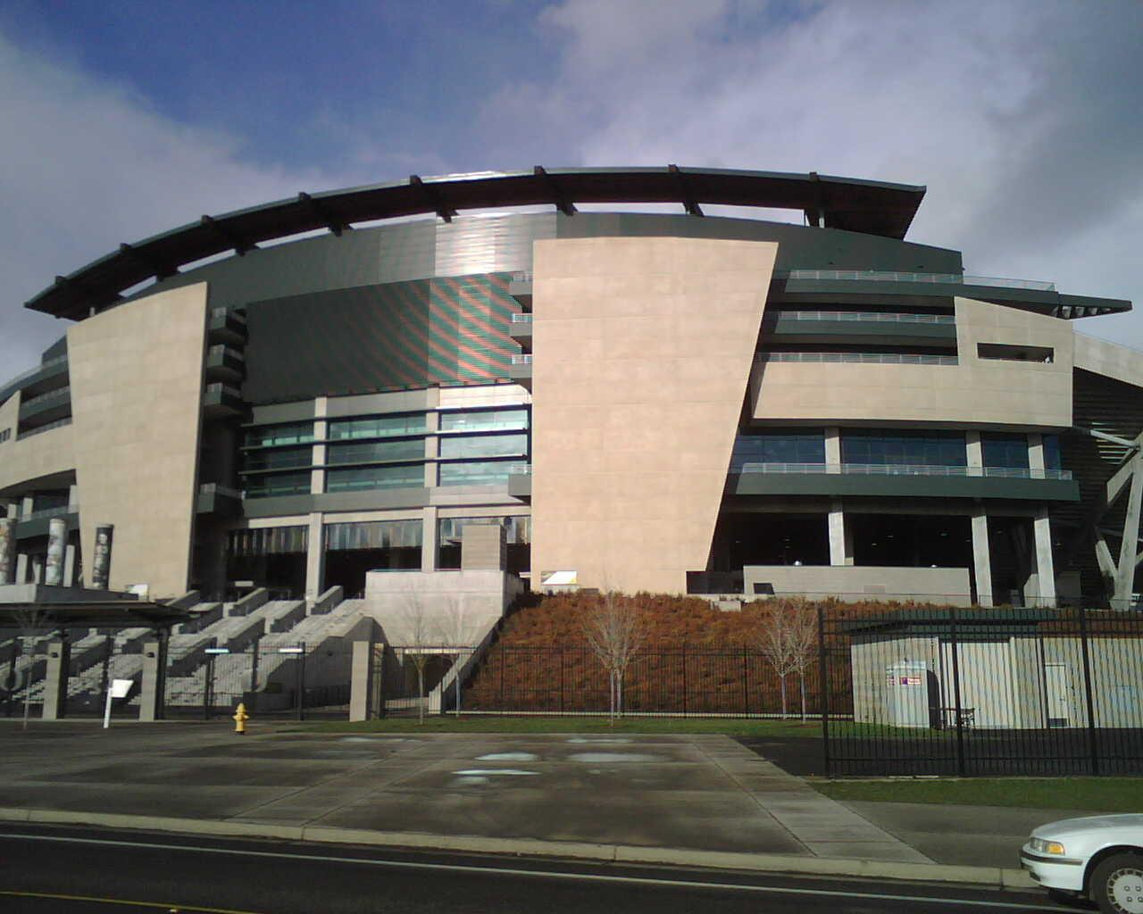 South side face of Autzen Stadium. I am the source of this photograph and hereby release it to the public domain.